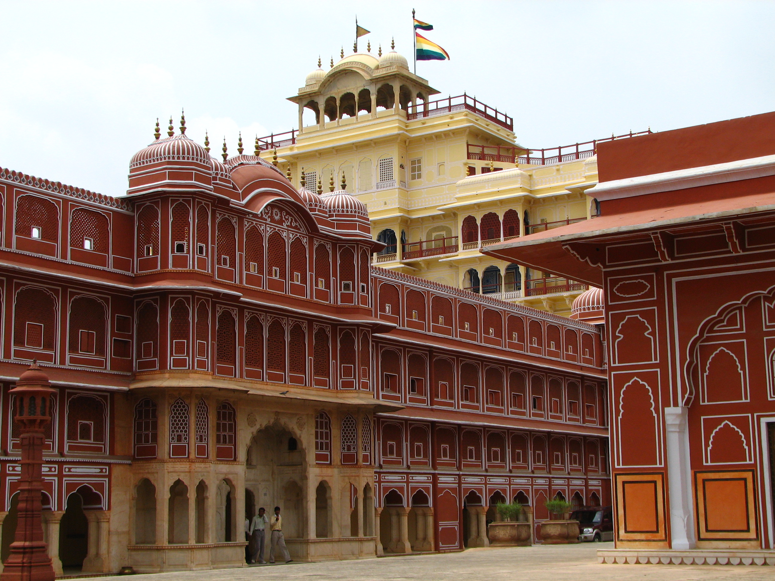 Chandra Mahal at Jaipur (Rajasthan, India) The bright colours of the courtyard in the Jaipur Palace. The double flag on the top signifies that the current Maharaja is in residence.